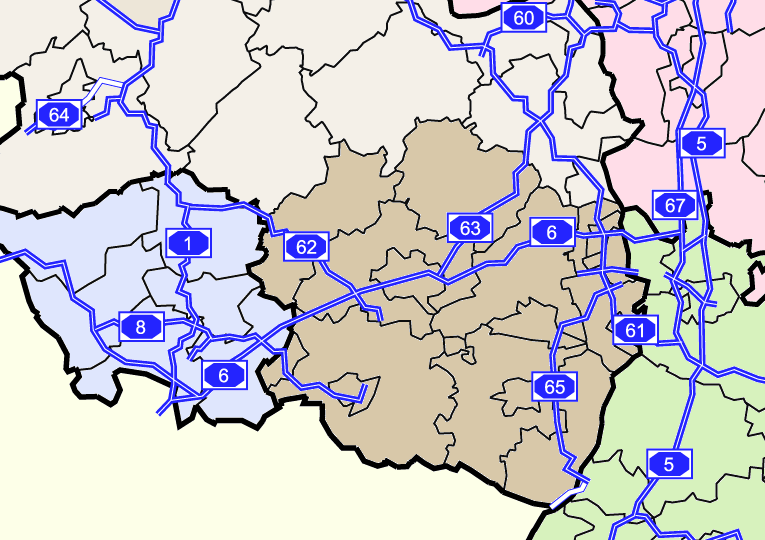 Motorways in the Pfalz